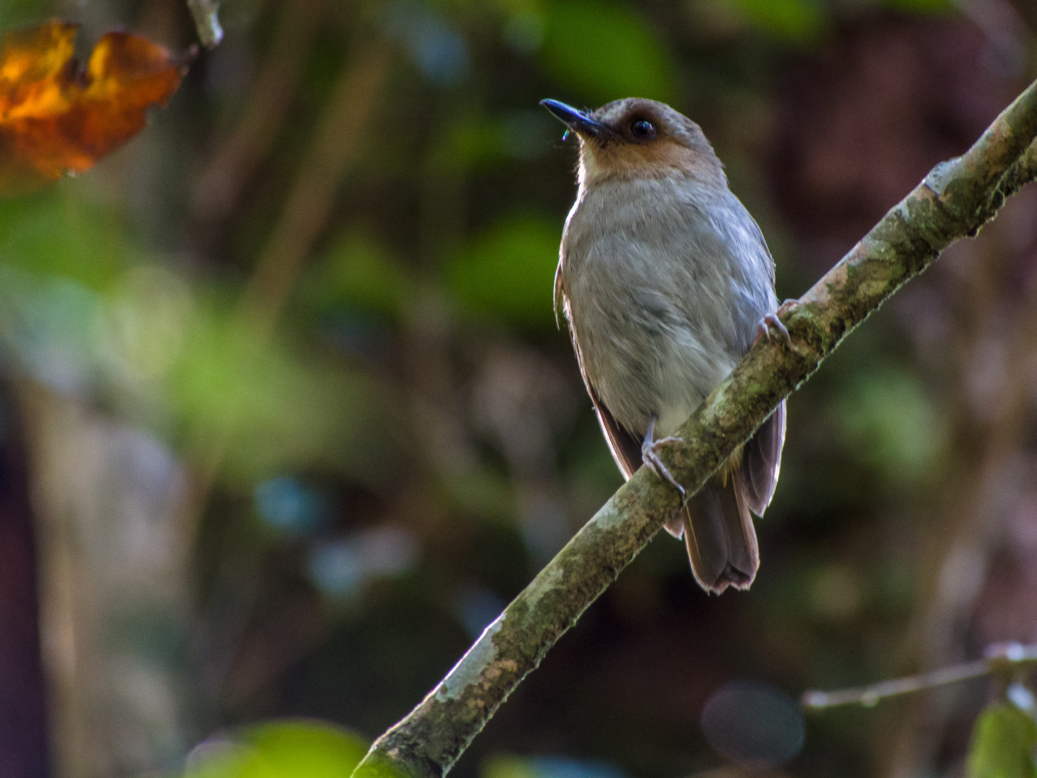 Eyebrowed Jungle Flycatcher